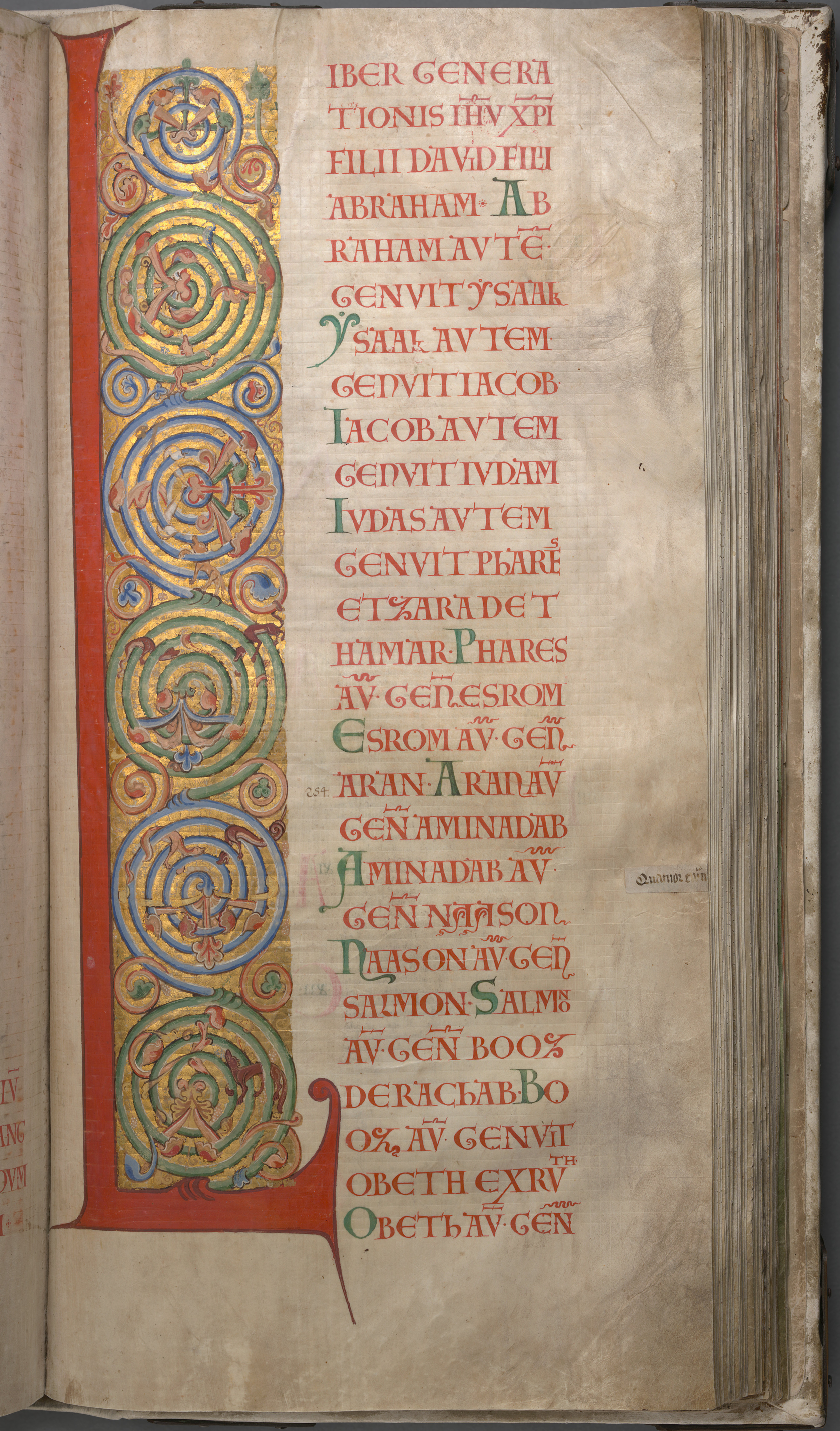 Giant Book) is the largest extant medieval manuscript in the world. It is also known as the Devil's Bible because of a large illustration of the devil on the inside and the legend surrounding its creation. It is thought to have been created in the early 13th century in the Benedictine monastery of Podlažice in Bohemia (modern Czech Republic). It contains the Vulgate Bible as well as many historical documents all written in Latin. During the Thirty Years' War in 1648, the entire collection was taken by the Swedish army as plunder, and now it is preserved at the National Library of Sweden in Stockholm, though it is not normally on display.